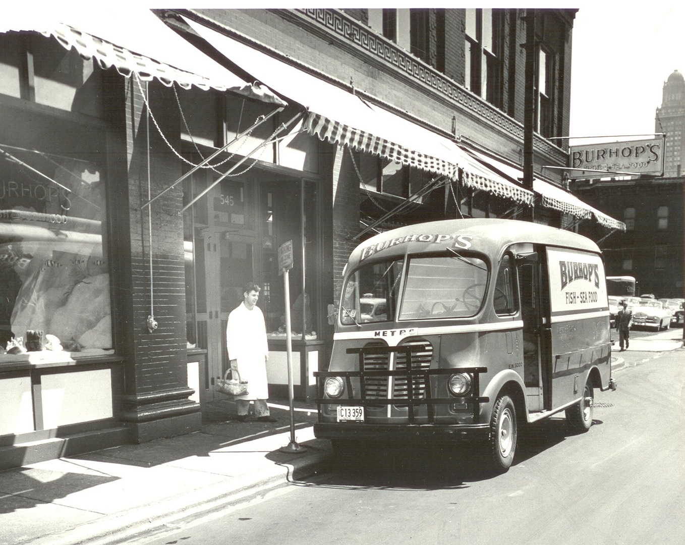 The North State Street location in the 1950s.